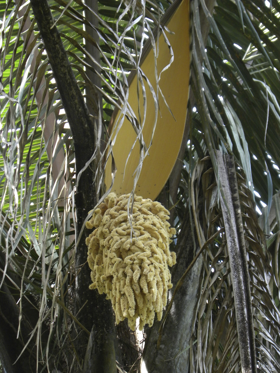 Attalea sp. male inflorescence swarming with insects. Photo taken in Carate, Puntarenas, Costa Rica.